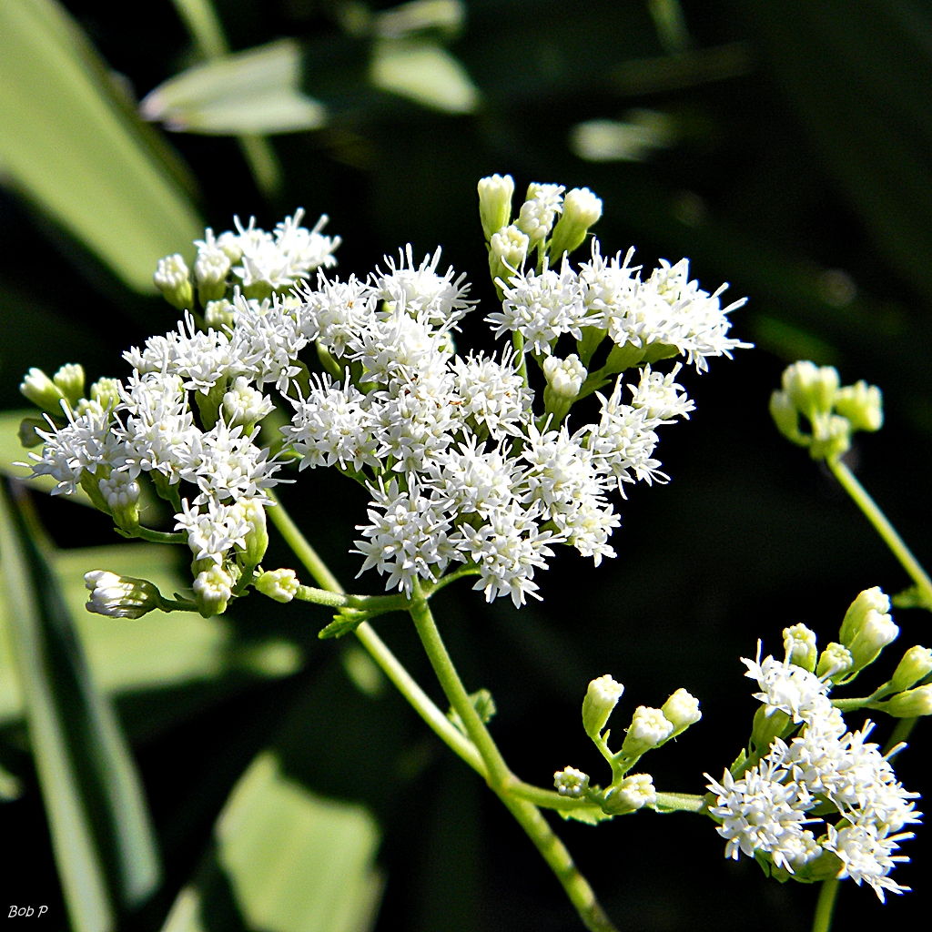 Well, Eupatorium sp. I'm guessing a little on this one. There are about 8 species in Jonathan Dickinson State Park but this one's leaves look like E. mikanioides and I'm going blind searching for images to compare. This is another tiny aster blooming along the Kitching Creek Trail.